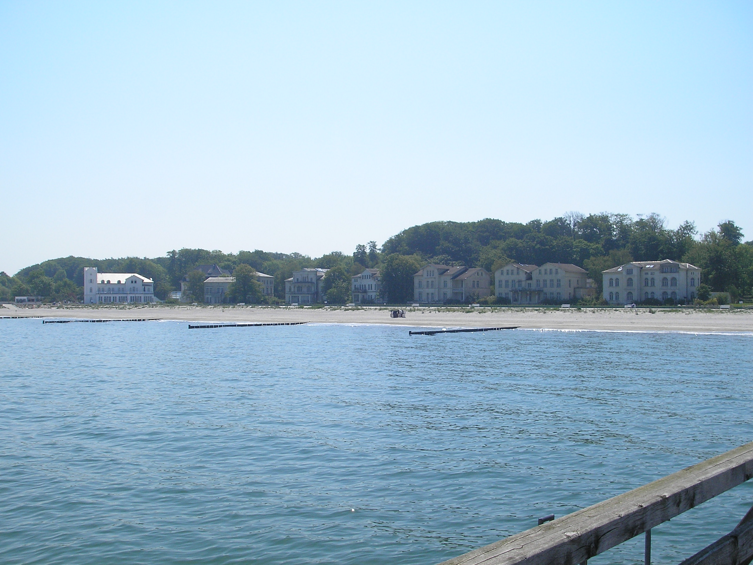 Image from the pier (Seebrücke) towards Heiligendamm.